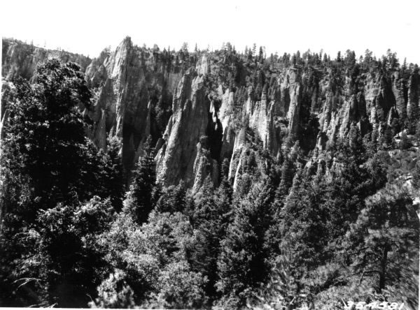 1937—Rock spires above the East Fork of the Gila River. Photo by R. P. Boone FS #354581